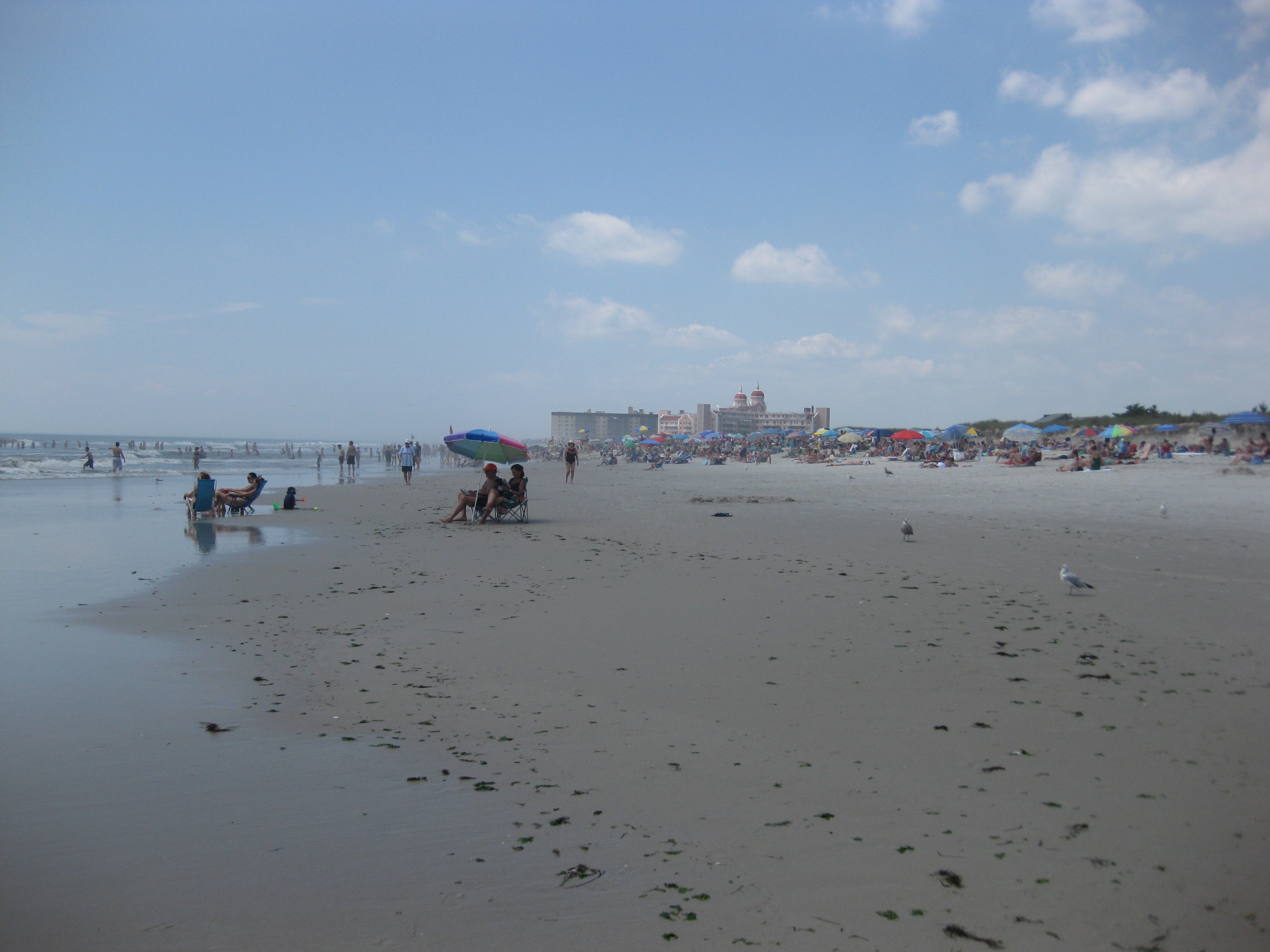 Lido West town park on Long Island, NY. This photo was taken next to the rock jetty looking west. The buildings in the distance are located in Long Beach